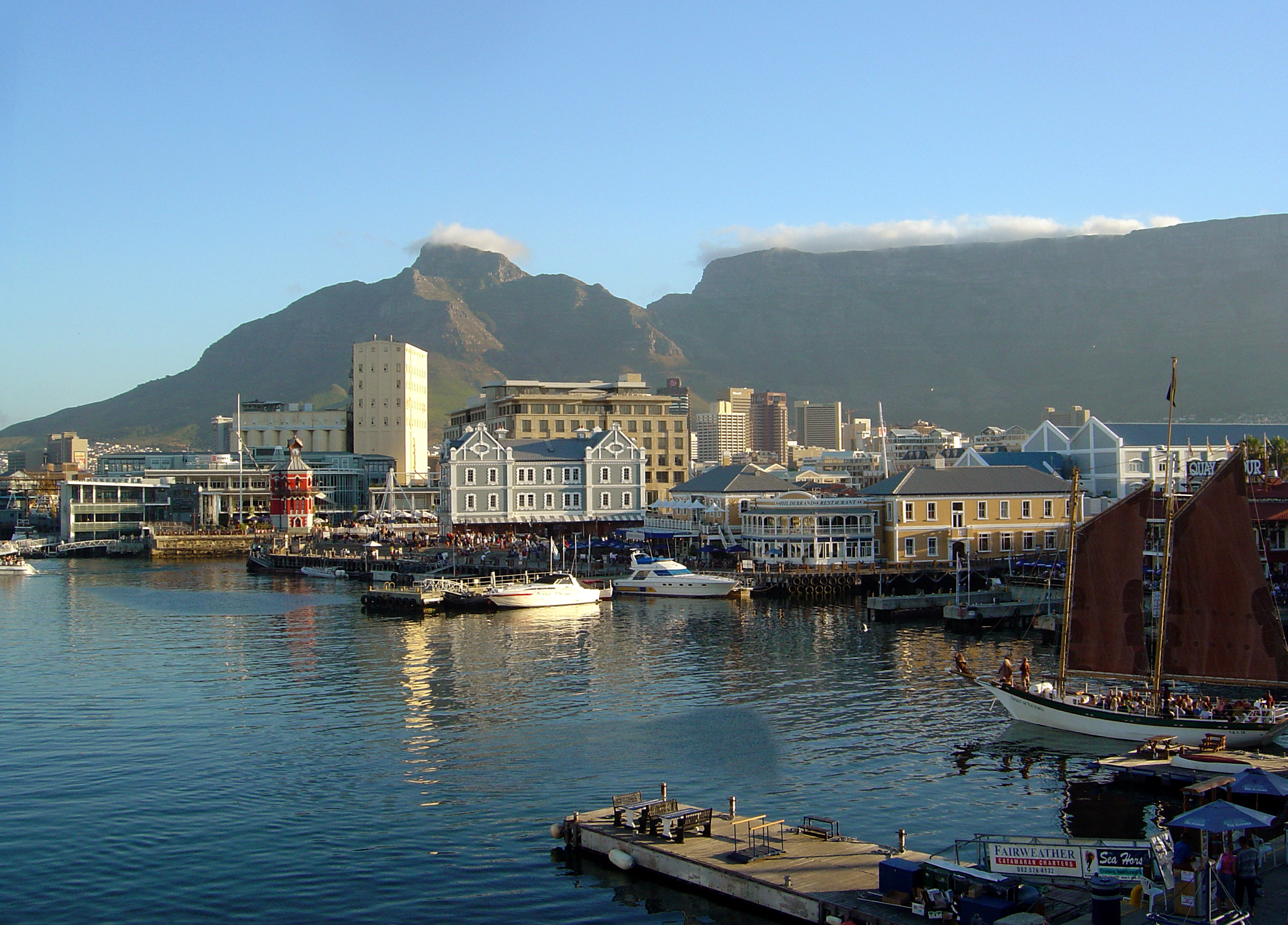 Cape Town Waterfront Harbour. In the back you see Table Mountain covered by some clouds.